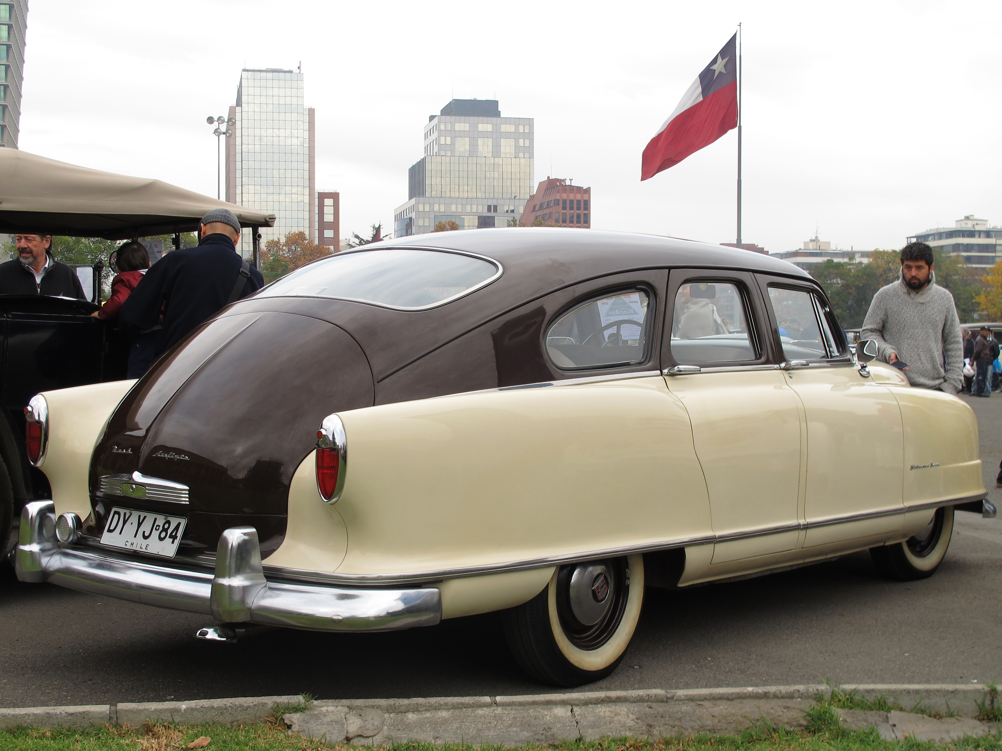 Nash Statestman Super Airflyte 1951